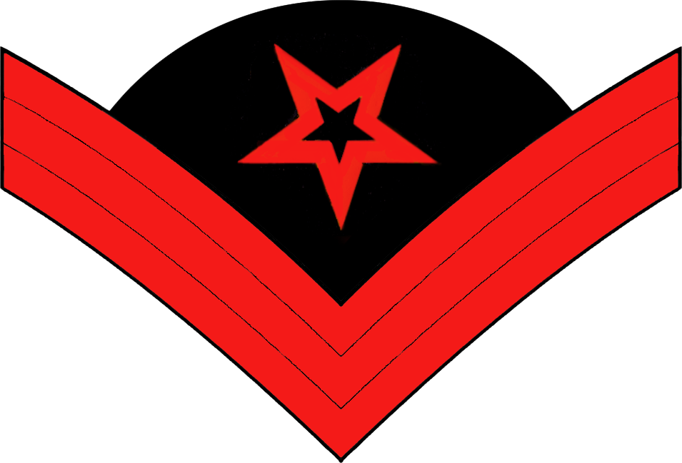 US Ordinance Sergeant rank insignia in artillery red